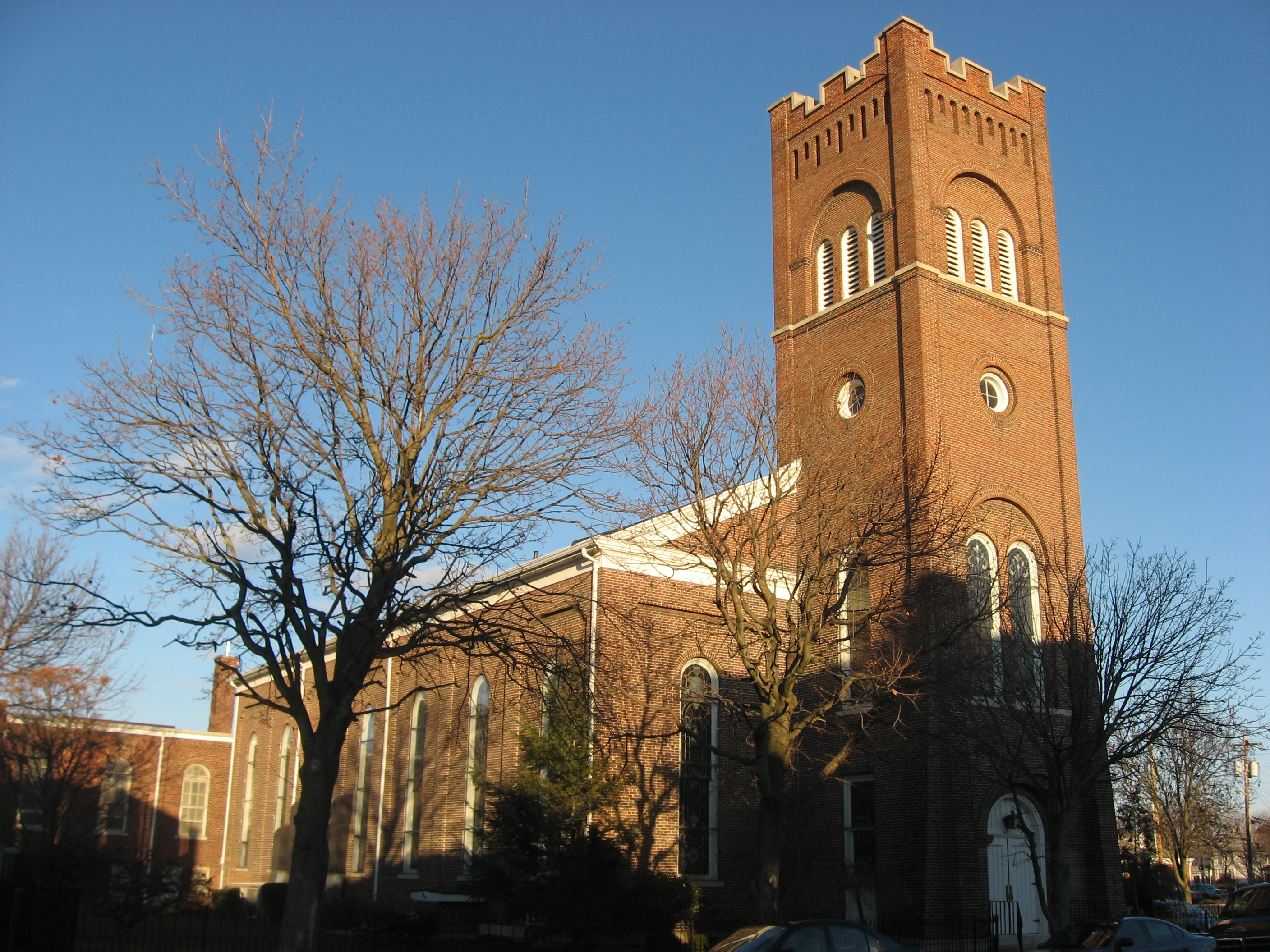 Front and northwestern side of First Presbyterian Church, located on the northern corner of the intersection of Franklin and Walnut Streets in Troy, Ohio, United States. Built in 1859, it is listed on the National Register of Historic Places. Church website.